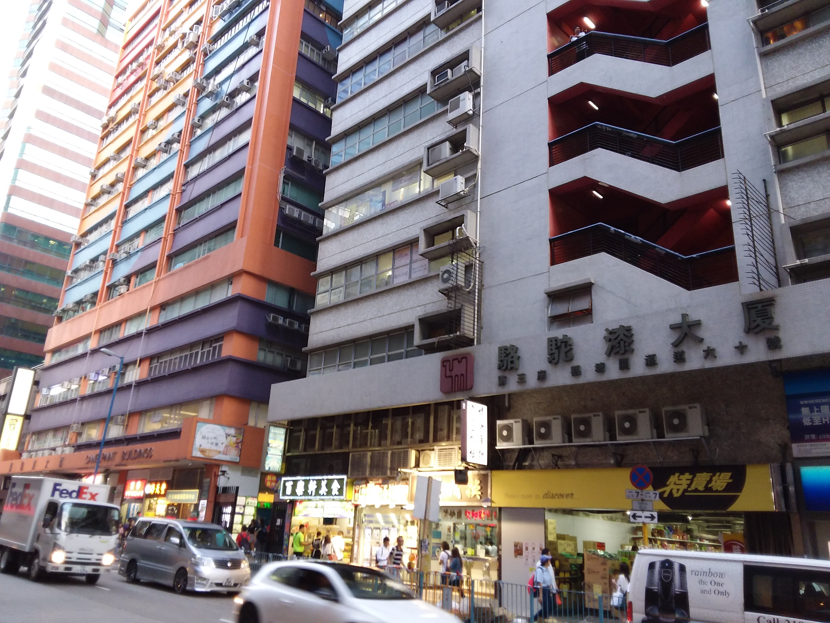 HK 觀塘 Kwun Tong 開源道 Hoi Yuen Road evening in June 2019